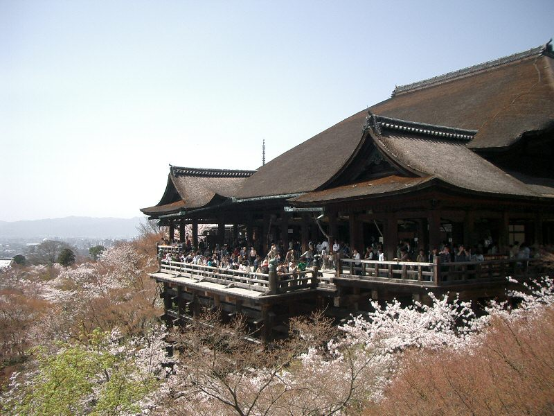 kiyomiudera temple in spring,kyoto japan